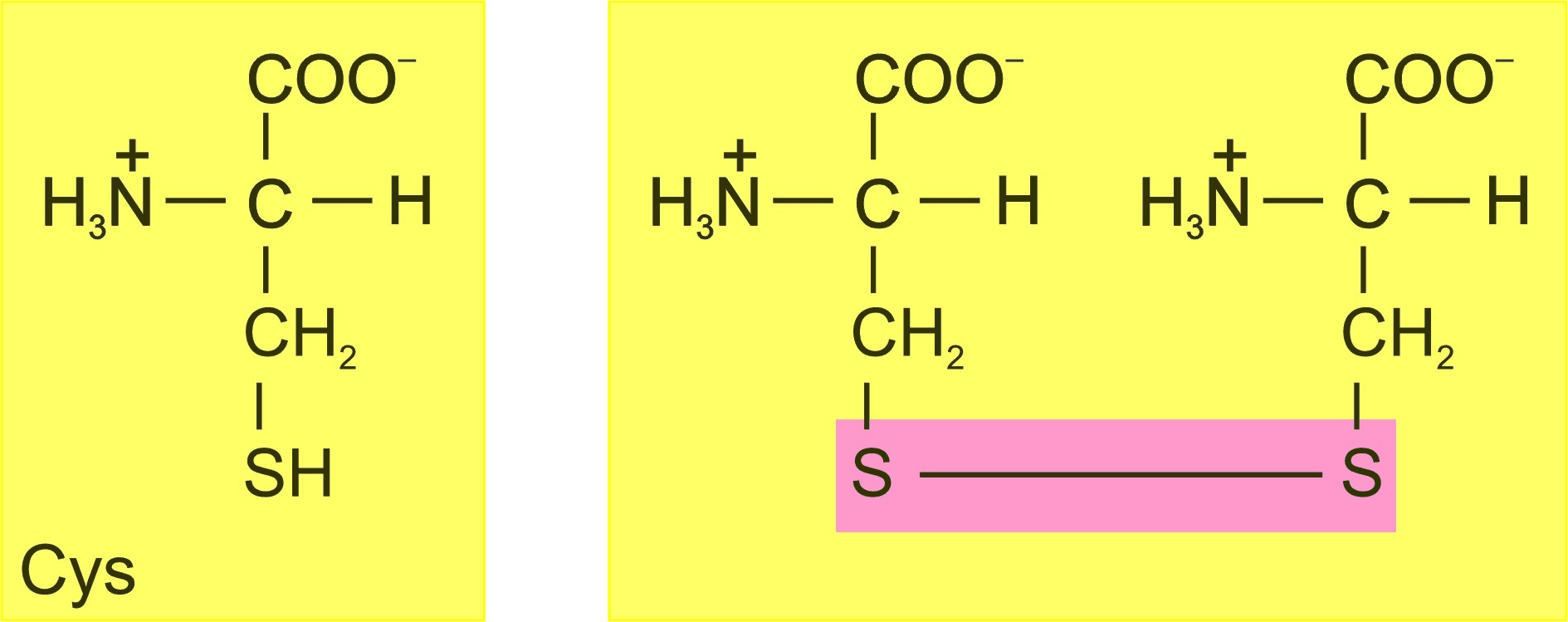 amino acid cysteine and cystine together jpg